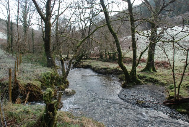 Afon Ceirig at the confluence with Nant-yr-Nele The small Nant-yr-Nele stream coming in from the left, joins the larger Afon Ceirig river.